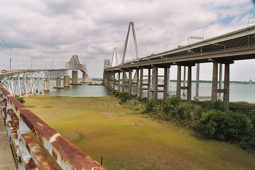 Old (left) and new (right) Cooper River Bridges (officially the John P. Grace Memorial Bridge and Arthur Ravenel Jr. Bridges respectively), Charleston, South Carolina, USA